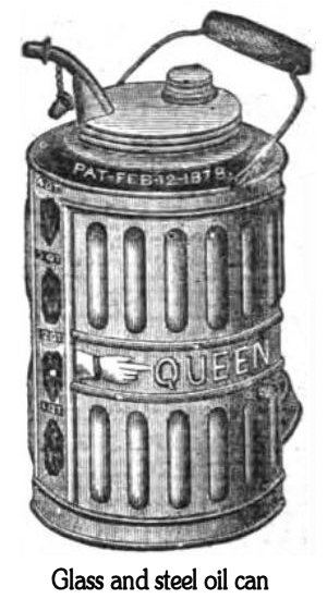 Drawing of Queen oil can, glass interior with steel casing, patent 12 February 1878, from an advertisement by C. Riessner & Co., New York. Oil can was used to store household oil primarily for lamps.